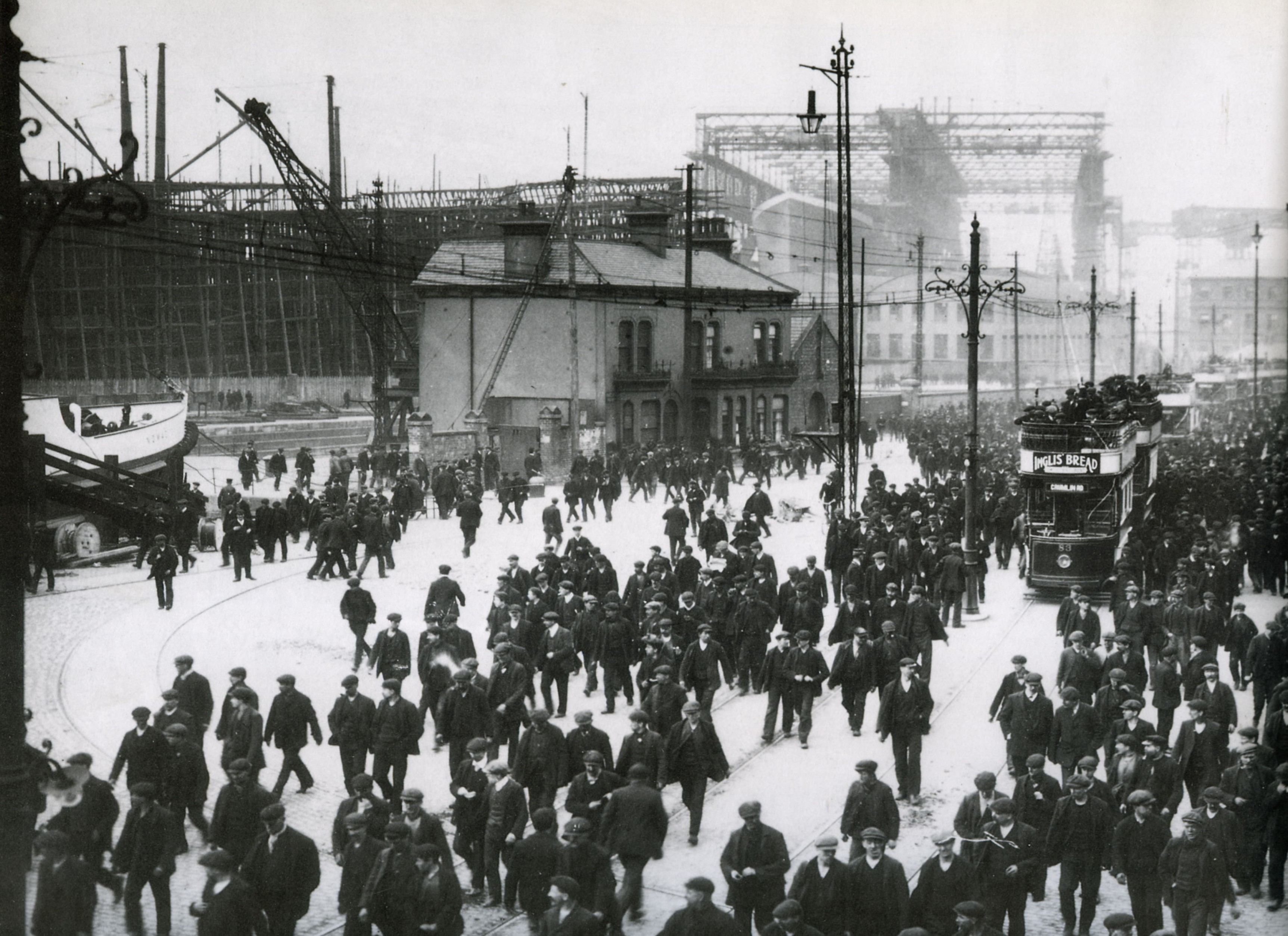 An image of knocking off time at Harland & Wolff, Belfast. The ship in the background is the Titanic.